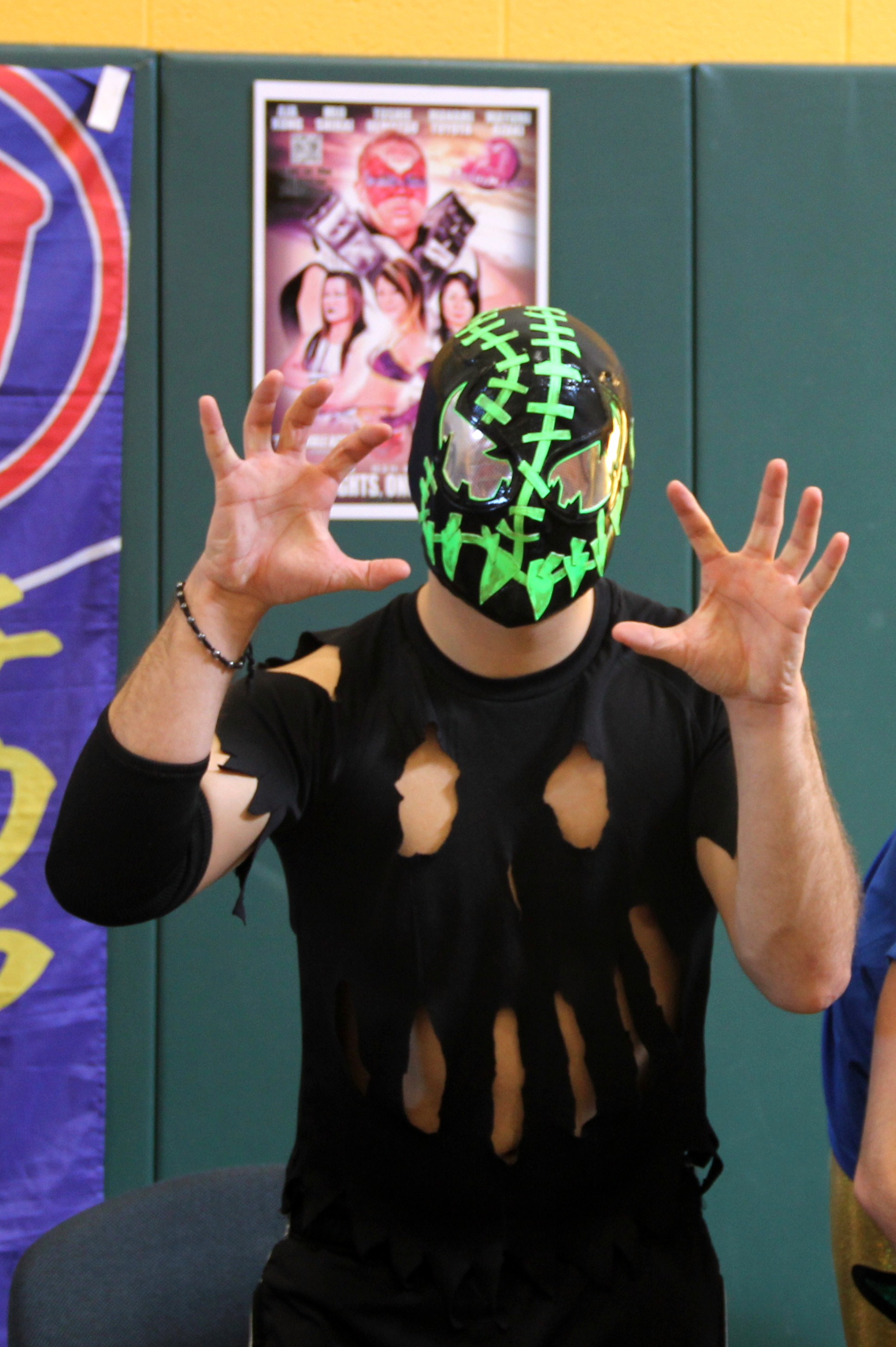 Professional wrestler Frightmare at Chikara King of Trios 2012 Fan Conclave.